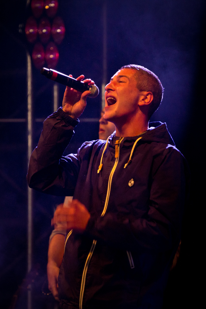 This photo was taken on August 6, 2011 in Little Malvern, England, GB, using a Canon EOS 60D.